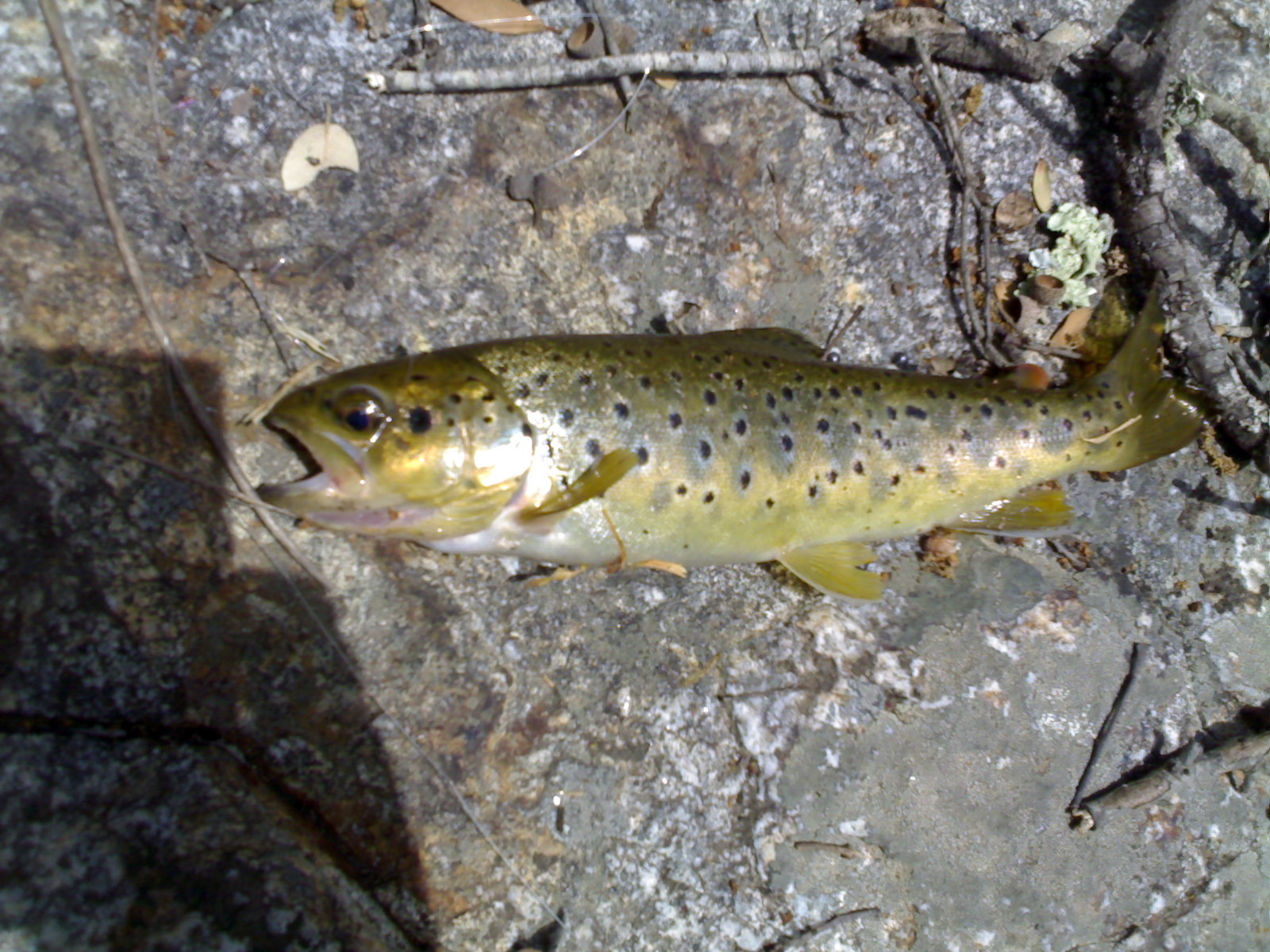 Salmo cettii photographed in Sardinia, Italy